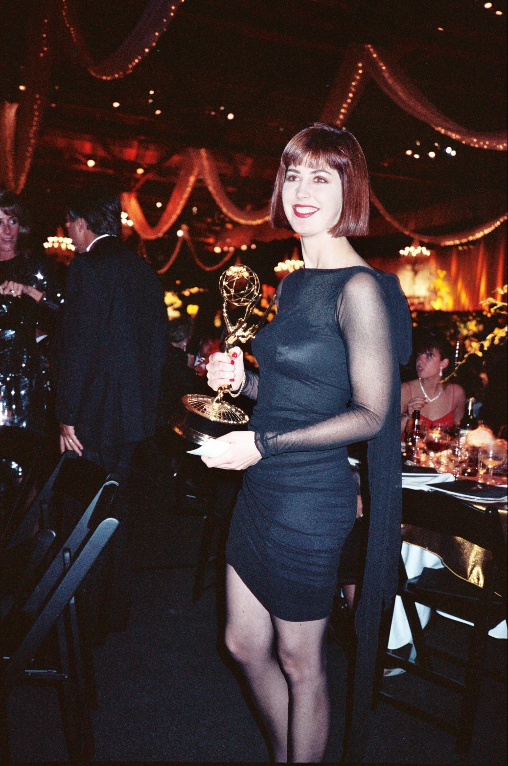 1989 Emmy Awards NOTE: Permission granted to copy, publish, broadcast or post any of my photos, but please credit "photo by Alan Light" if you can. Thanks. Scanned from the original 35MM film negative.